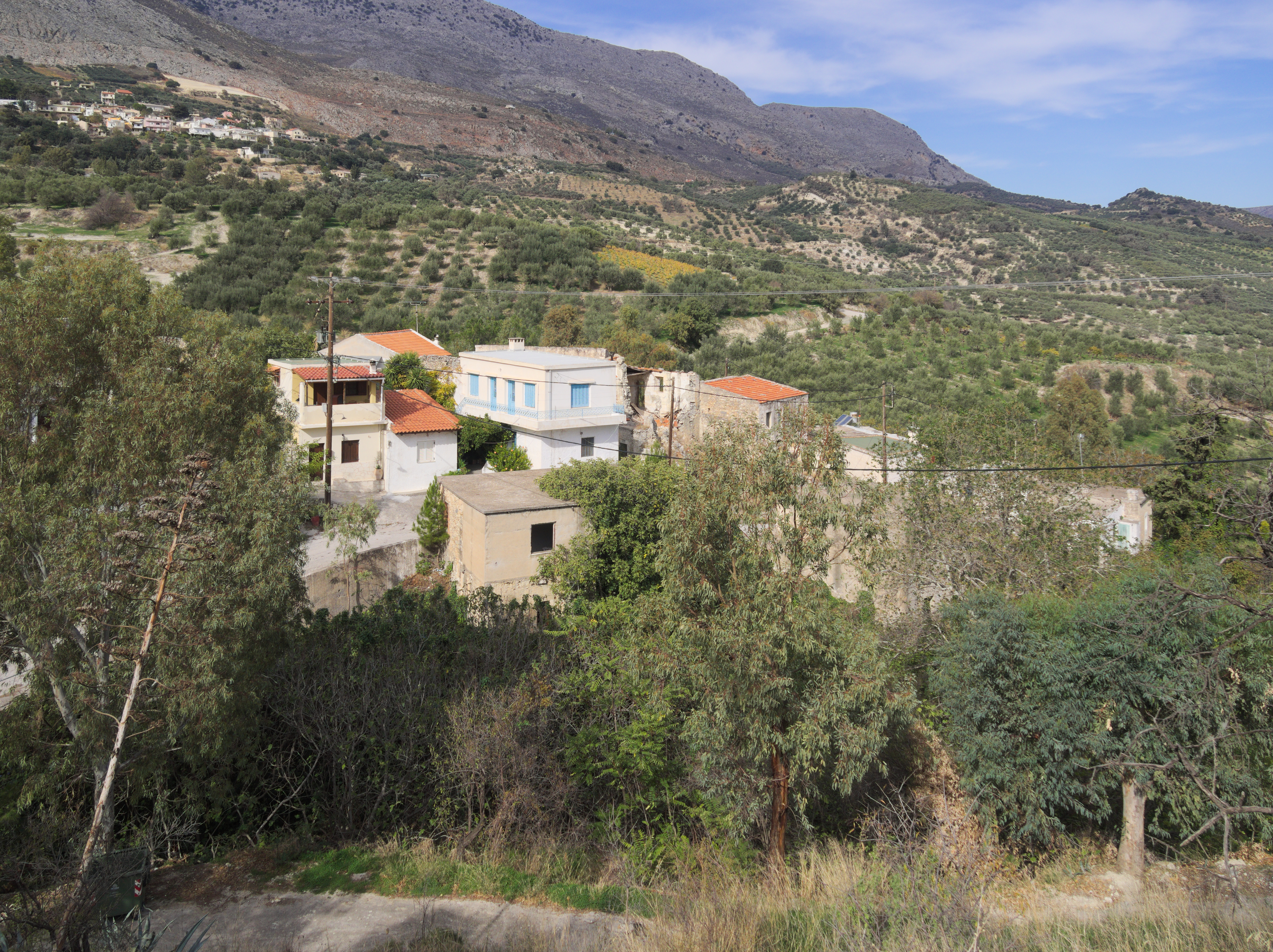 View of Kato Loutraki small from west. Top left is visible the village Loutraki.